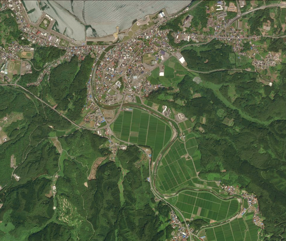 Japan, Aomori prefecture: aerial view of the Nakamura river in Ajigasawa.